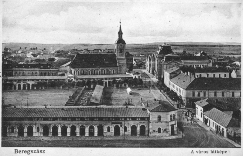 Berehove